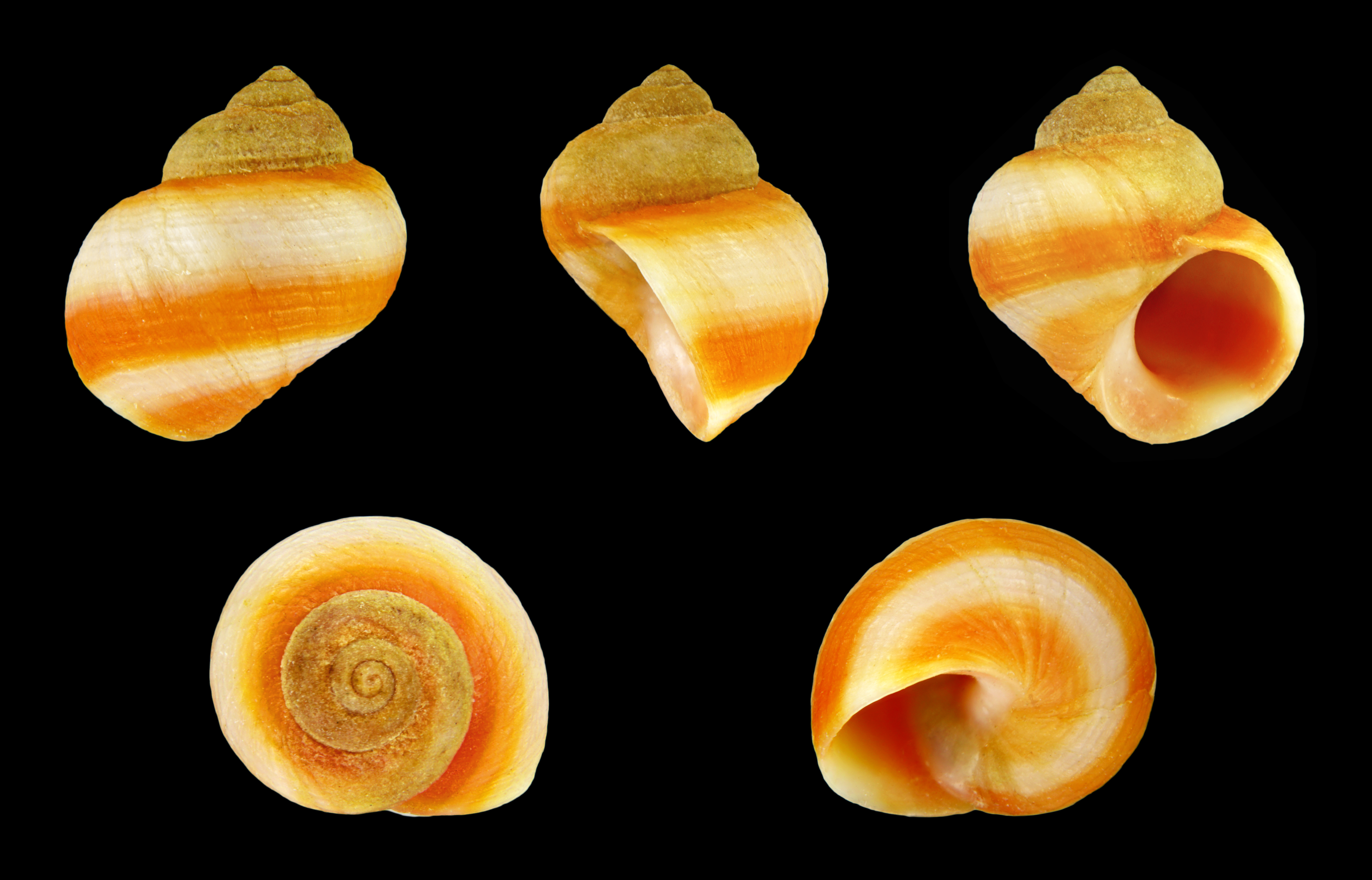 Rough Periwinkle, banded form; Height 0.9 cm; Originating from Saint Helier, Jersey, Great Britain; Shell of own collection, therefore not geocoded. Dorsal, lateral (right side), ventral, back, and front view.